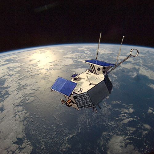 Satellite CRRES of NASA (artist's view)